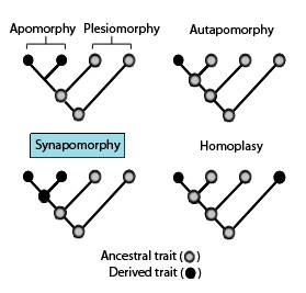 Adapted from Page, Roderic D.M. and Holmes, Edward C. Molecular evolution: a phylogenetic approach. Wiley-Blackwell, 1st edition, 1998.